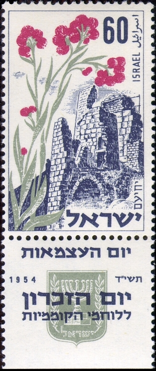 Sixth Independence Day stamp - 60 mil. Inscription: "Yehiam". Inscription on tab: "The Sixth Independence Day", "Memorial Day for the Fighters for Independence"